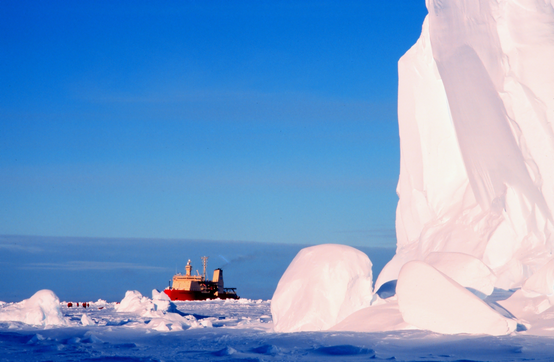 The Ross Ice Shelf at the Bay of Whales. Research Vessel Ice Breaker (RVIB) NATHANIEL B. PALMER in the background